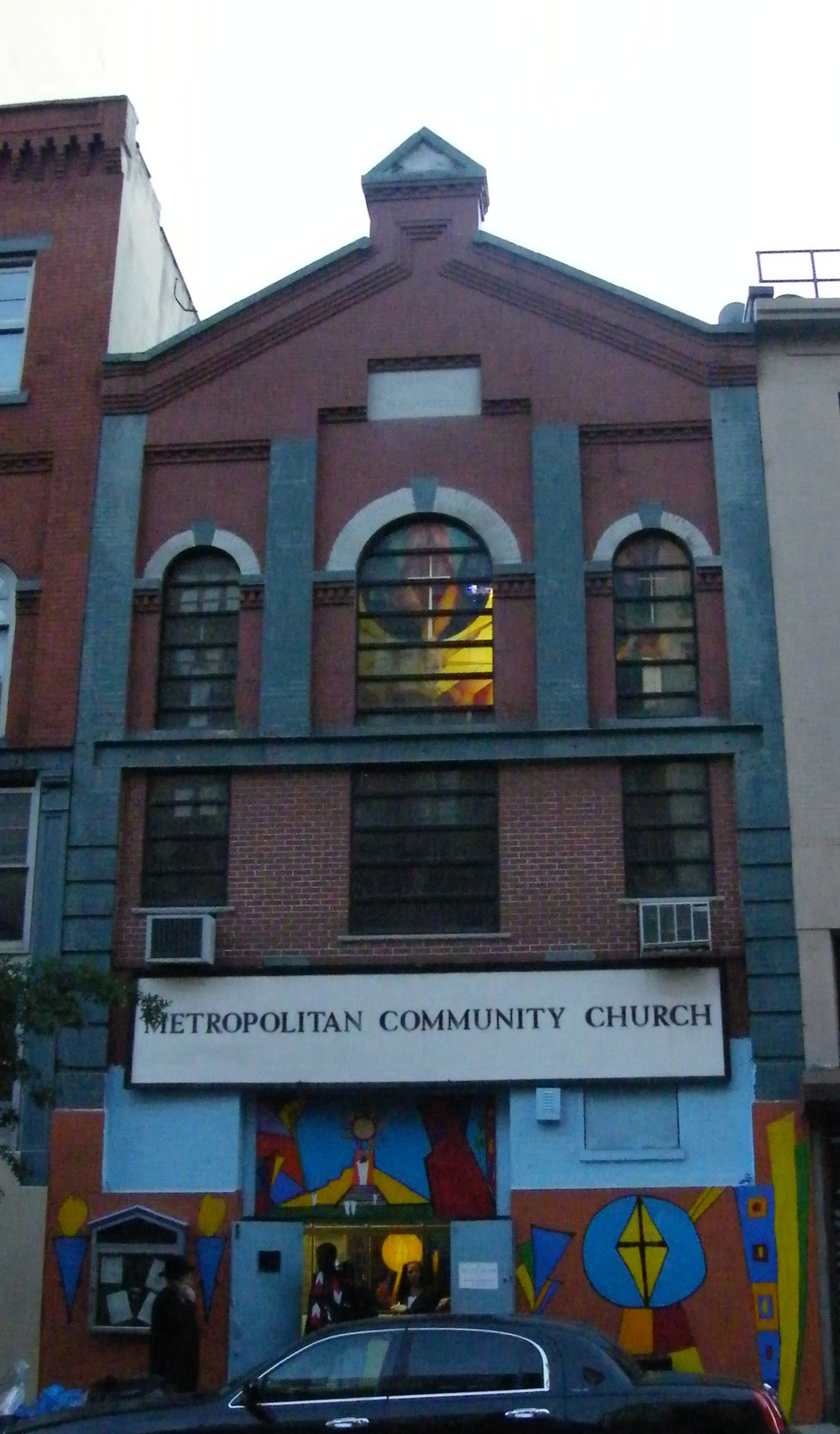 Metropolitan Community Church of New York 446 West 36th Street